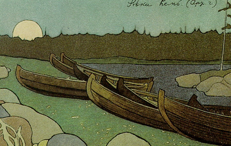 Unknown